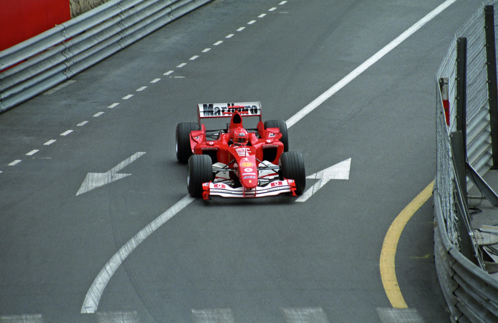 Michael Schumacher driving for Scuderia Ferrari at the 2004 Monaco Grand Prix.